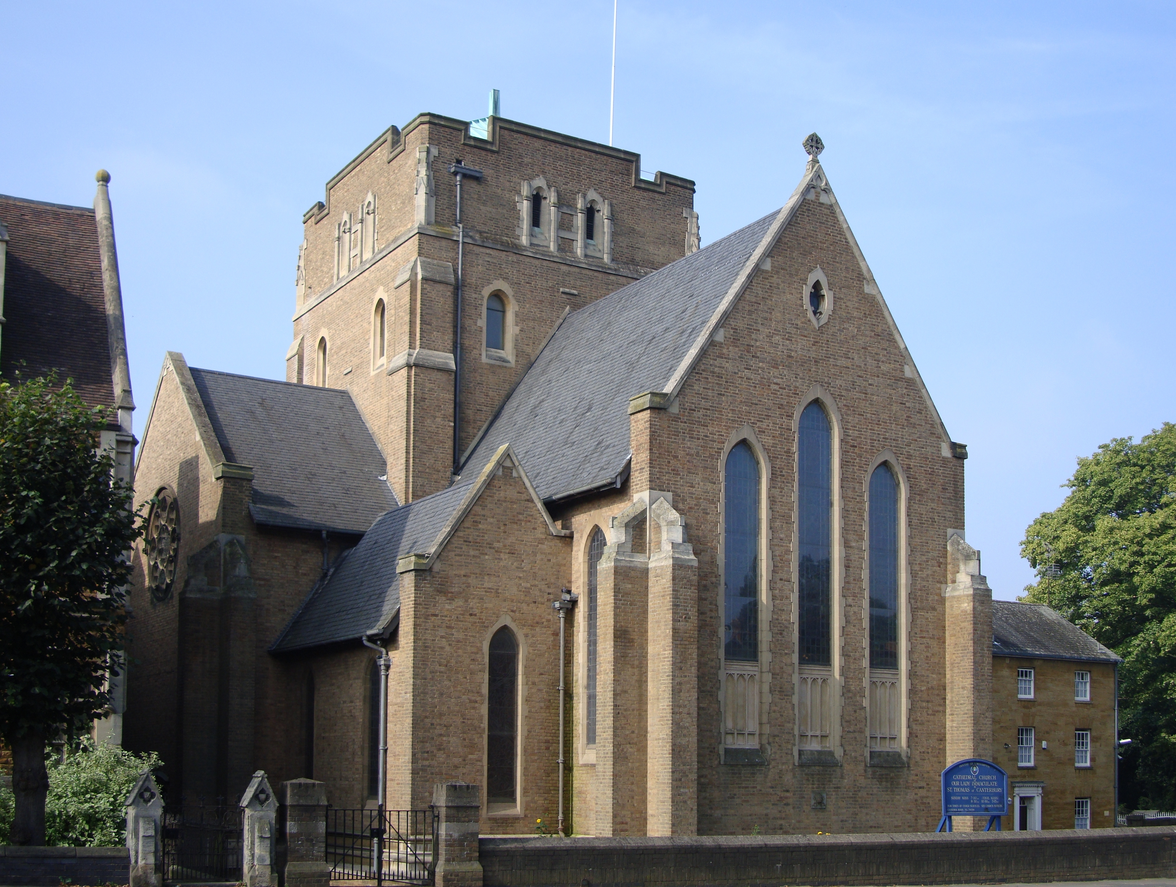 Photograph of the Roman Catholic Cathedral, Northampton, England